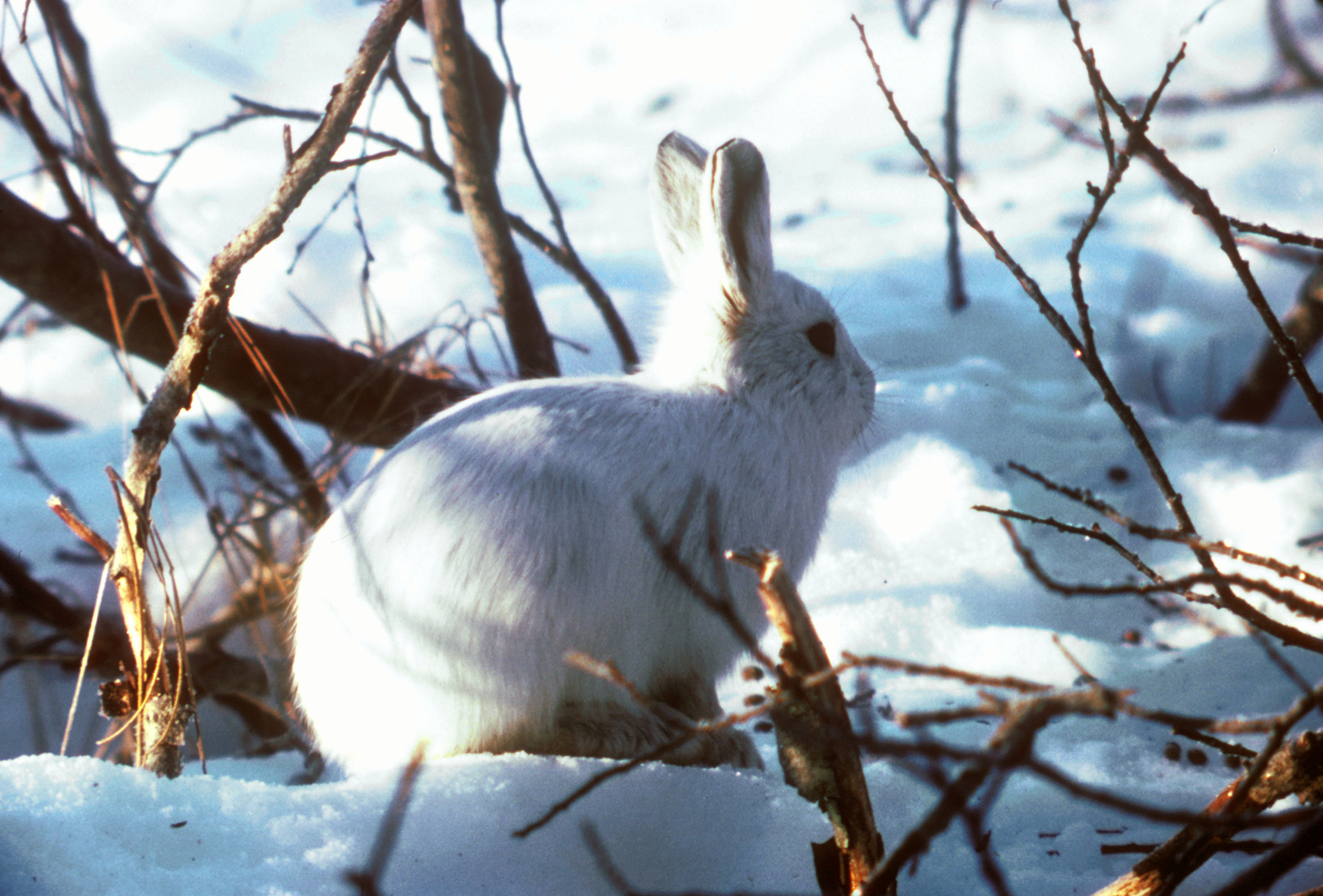 Title: Arctic hare (Lepus arcticus) Original title: Lepus othus; assumed to be L. arcticus in alternate version of file Creator: USFWS Source: WO2550-21 Publisher: U.S. Fish and Wildlife Service Contributor: DIVISION OF PUBLIC AFFAIRS Language: EN - ENGLISH Rights: (public domain) Audience: (general) Subject: hare, small mammal first upload: 6 August 2003 - Wikipedia by User:Cordyph